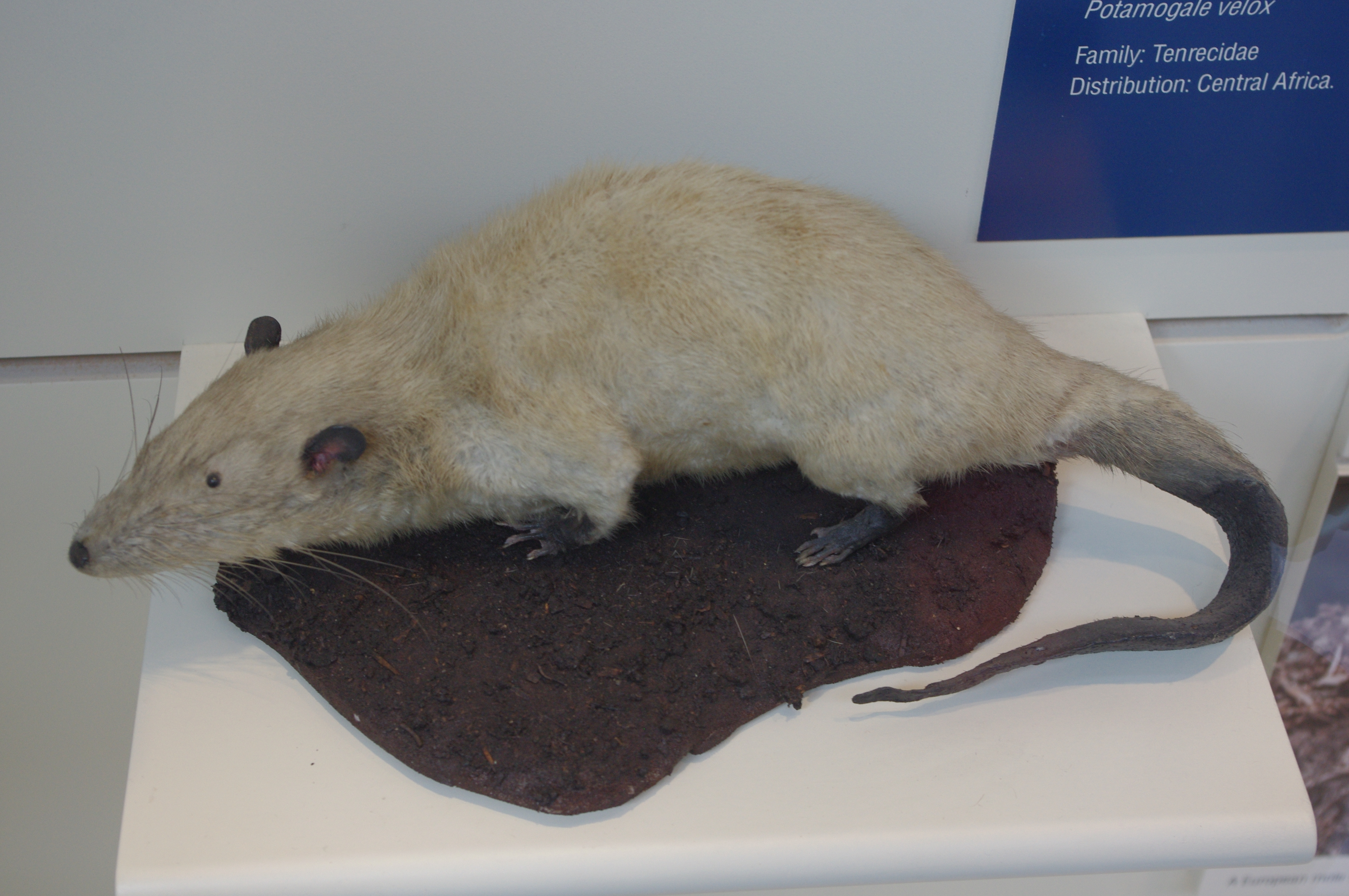 Giant otter shrew (Potamogale velox (Du Chaillu, 1860)) - Natural History Museum, London